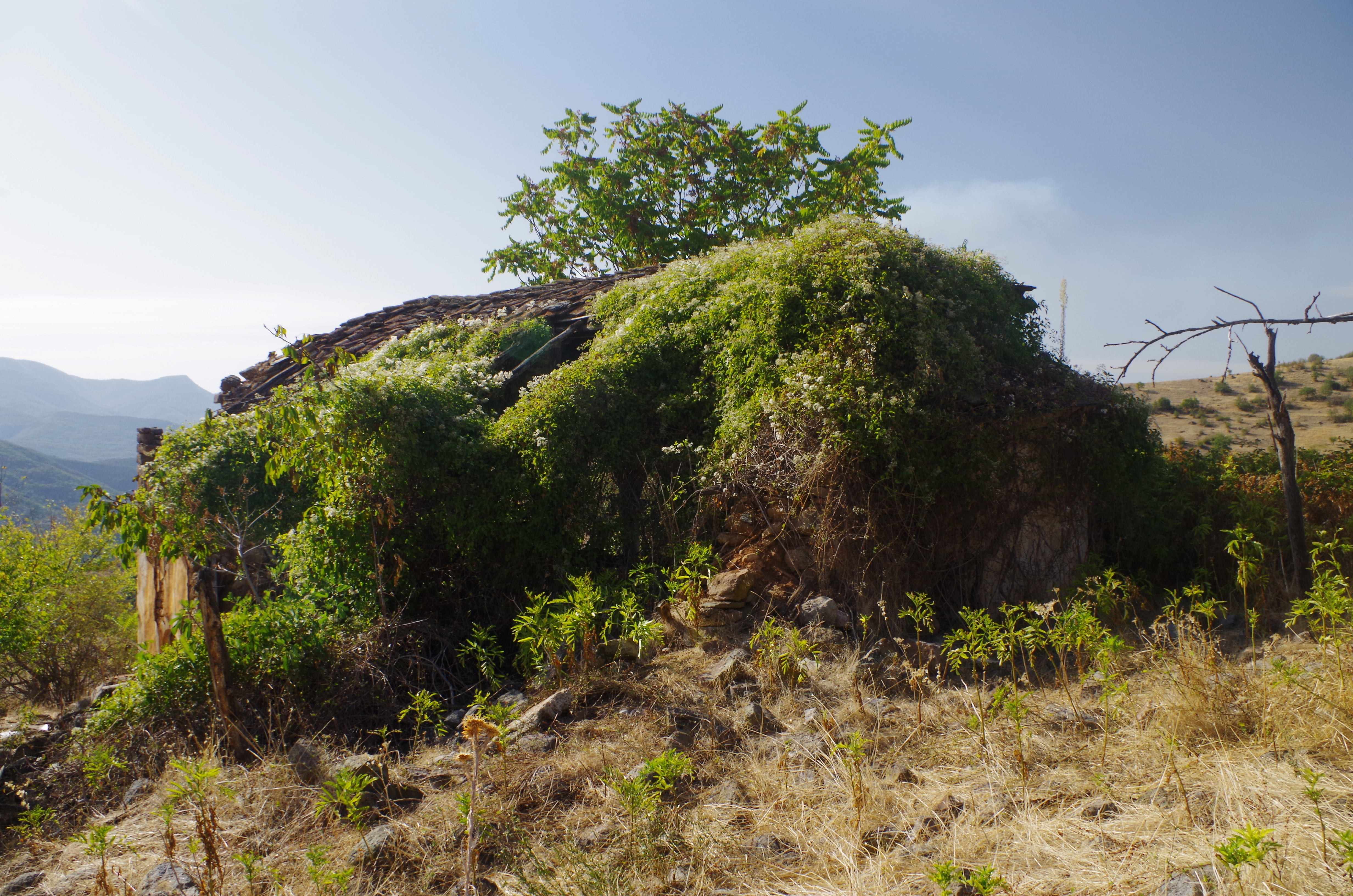 St. Mina Church in the village of Garnikovo